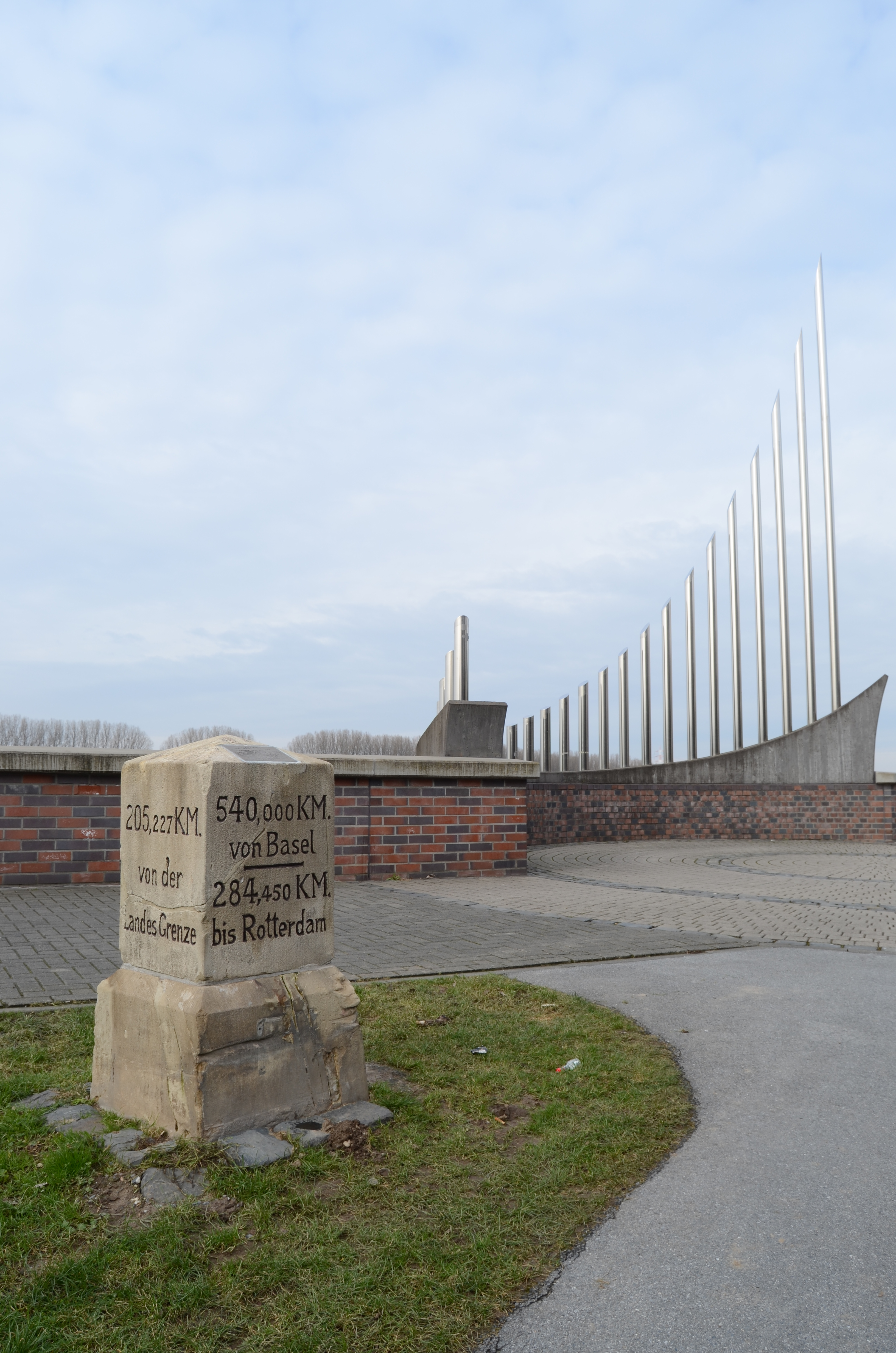 Monheim am Rhein (North Rhine-Westphalia, Germany) – "Myriameterstein" no. 54 (built around 1870) with the sculpture Vierte Dimension (Karl-Heinz Pohlmann, 2002) in the background This image shows a heritage building in Germany, located in the North Rhine-Westphalian city Monheim am Rhein. This photograph was taken with a Nikon D7000